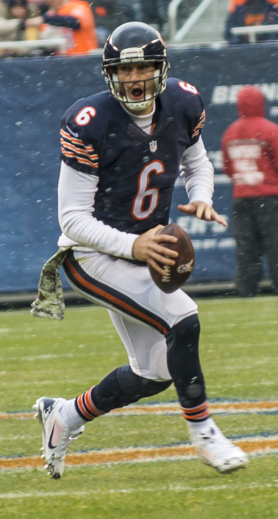 NFL QB Jay Cutler playing for the Chicago Bears in a November 16, 2014 home game at Soldier Field against the Minnesota Vikings.